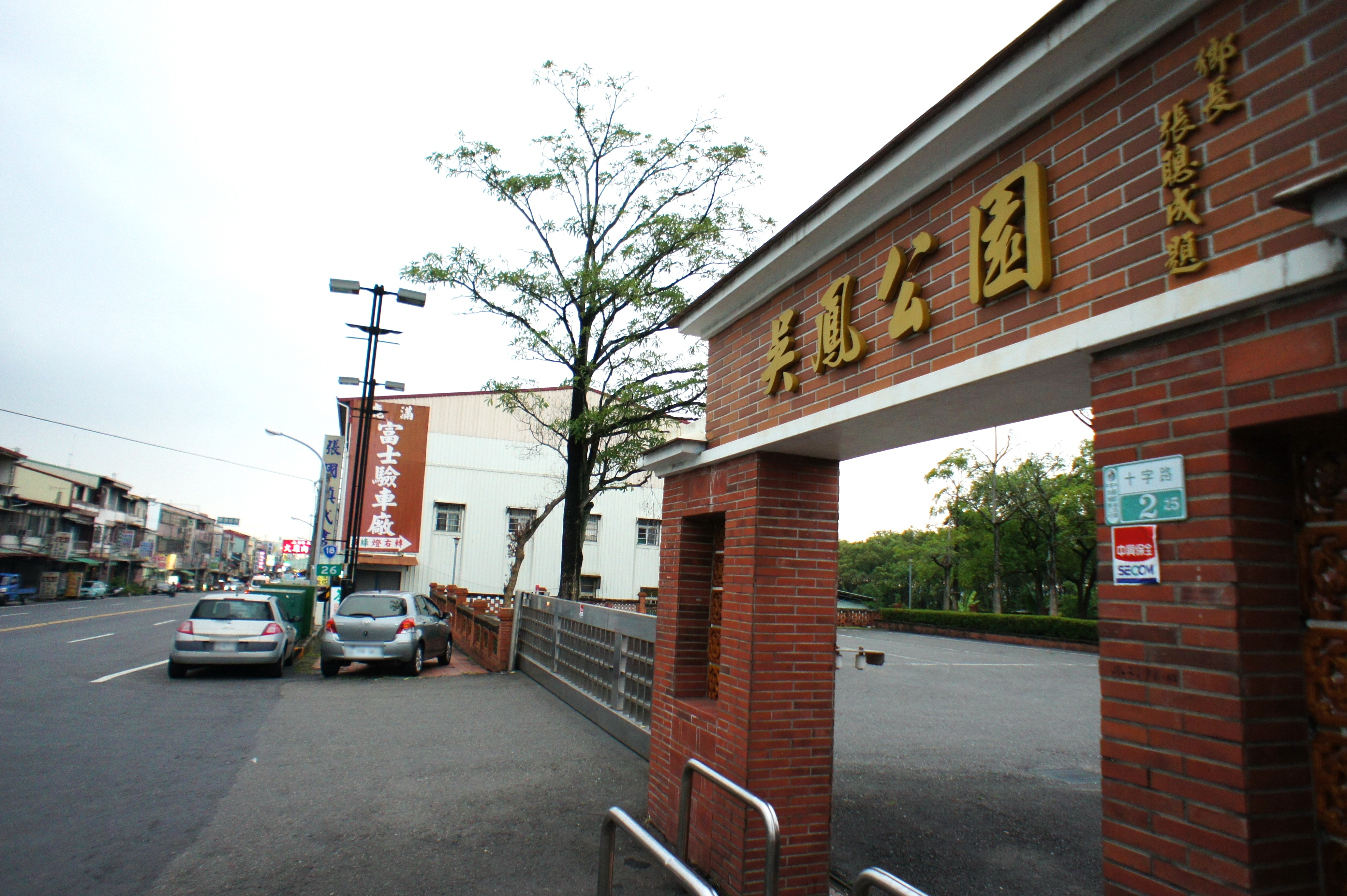 The main entrance of the Wufeng Park, Jhongpu Township, Chiayi, Taiwan.